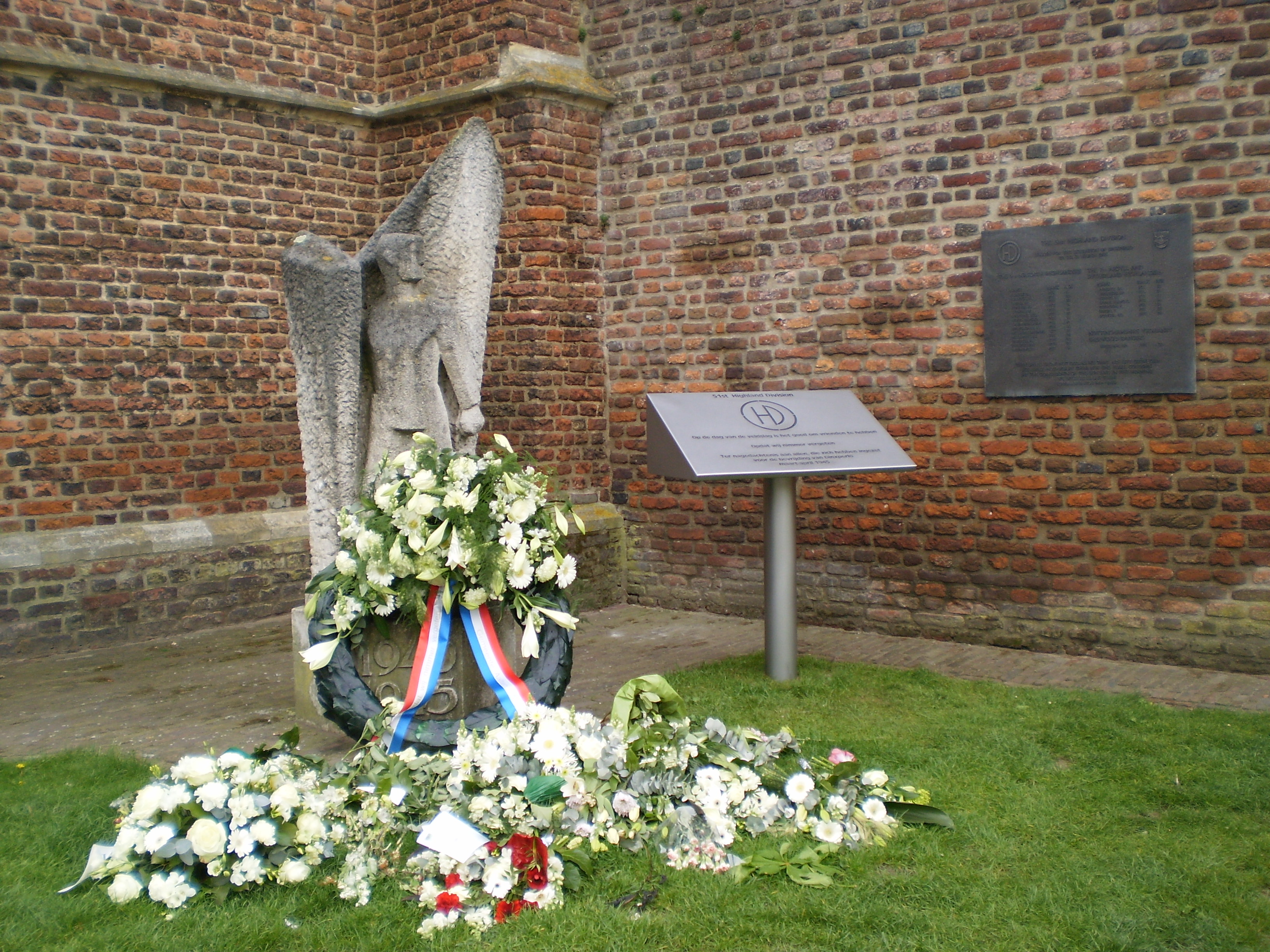 Memorials and wreath on church terrain in Dutch town of Dinxperlo remembering its dead of WW II and honouring British 51st (Highland) Division who liberated the village in 1945 - sculpture by Albert Diekerhof, 1958